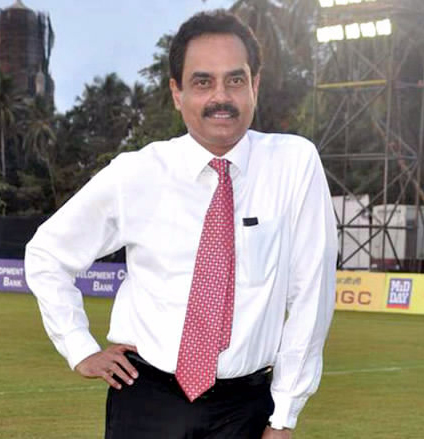 Dilip Vengsarkar at celebrity hockey match